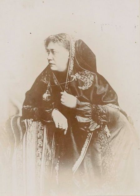 Mystic Helena Blavatsky in her earlier career